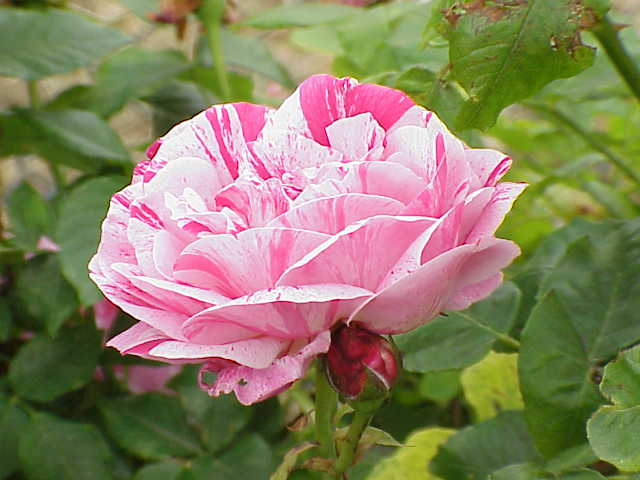 Species: Rosa sp. Family: Rosaceae Image No. 7